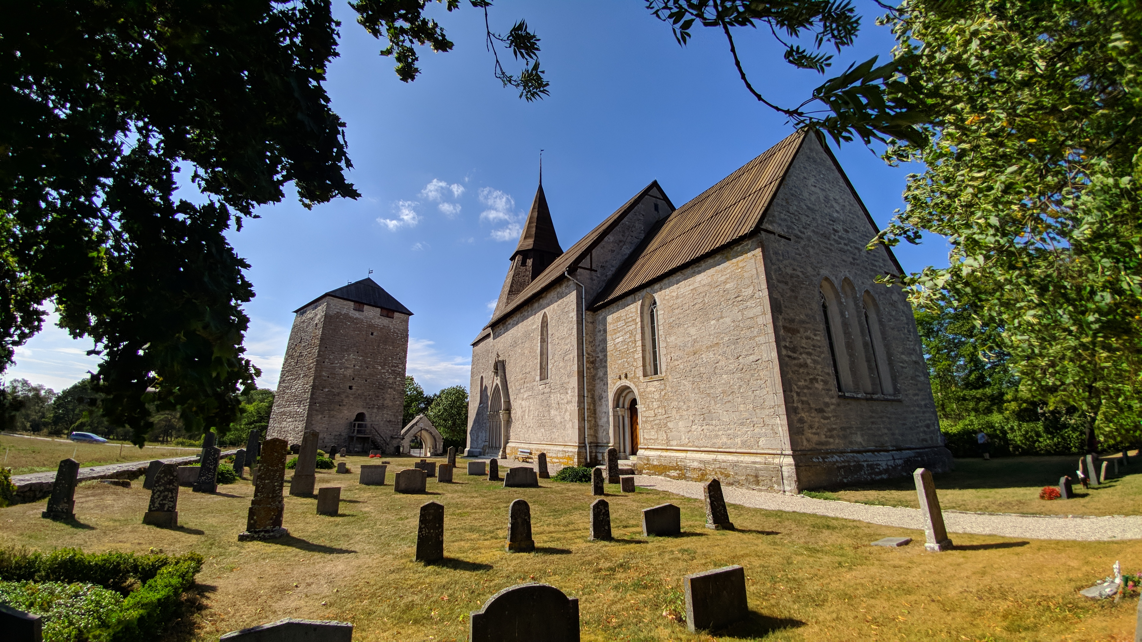 Gammelgarn church on Gotland, Church with a fortified tower (Kastal)